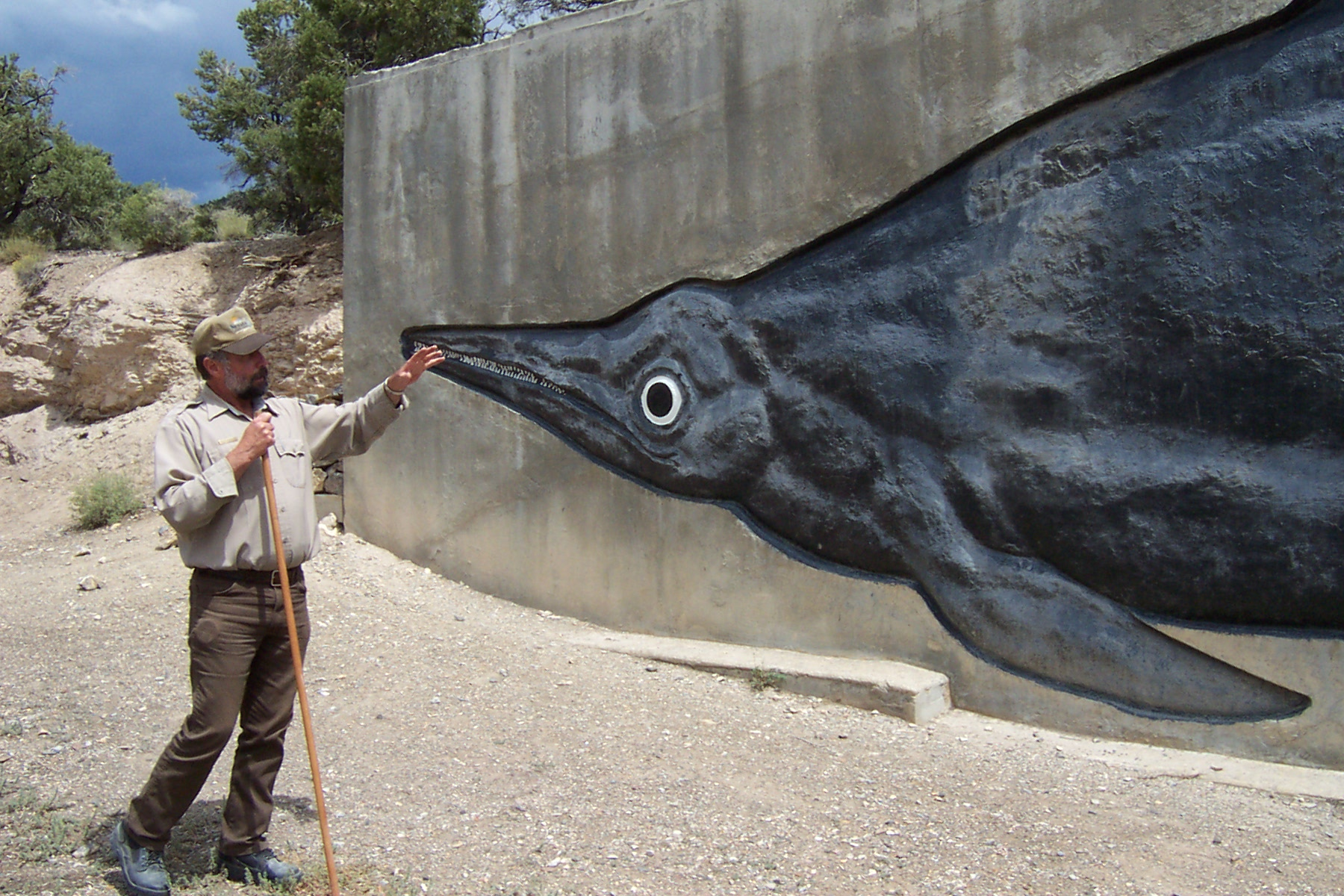 Tour guides are here and willing to give valuable information.